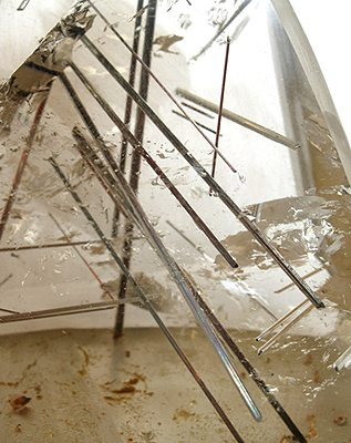 Quartz Locality: Minas Gerais, Southeast Region, Brazil (Locality at ) Size: miniature, 5.8 x 5.2 x 2.7 cm Quartz A polished section of a rutilated quartz crystal showing unusually individual and robust rutile crystals within. From the Cliff Awald Collection(he wrote a pamphlet about inclusions in quartz in the mid-1950s for the Buffalo Museum of Science).